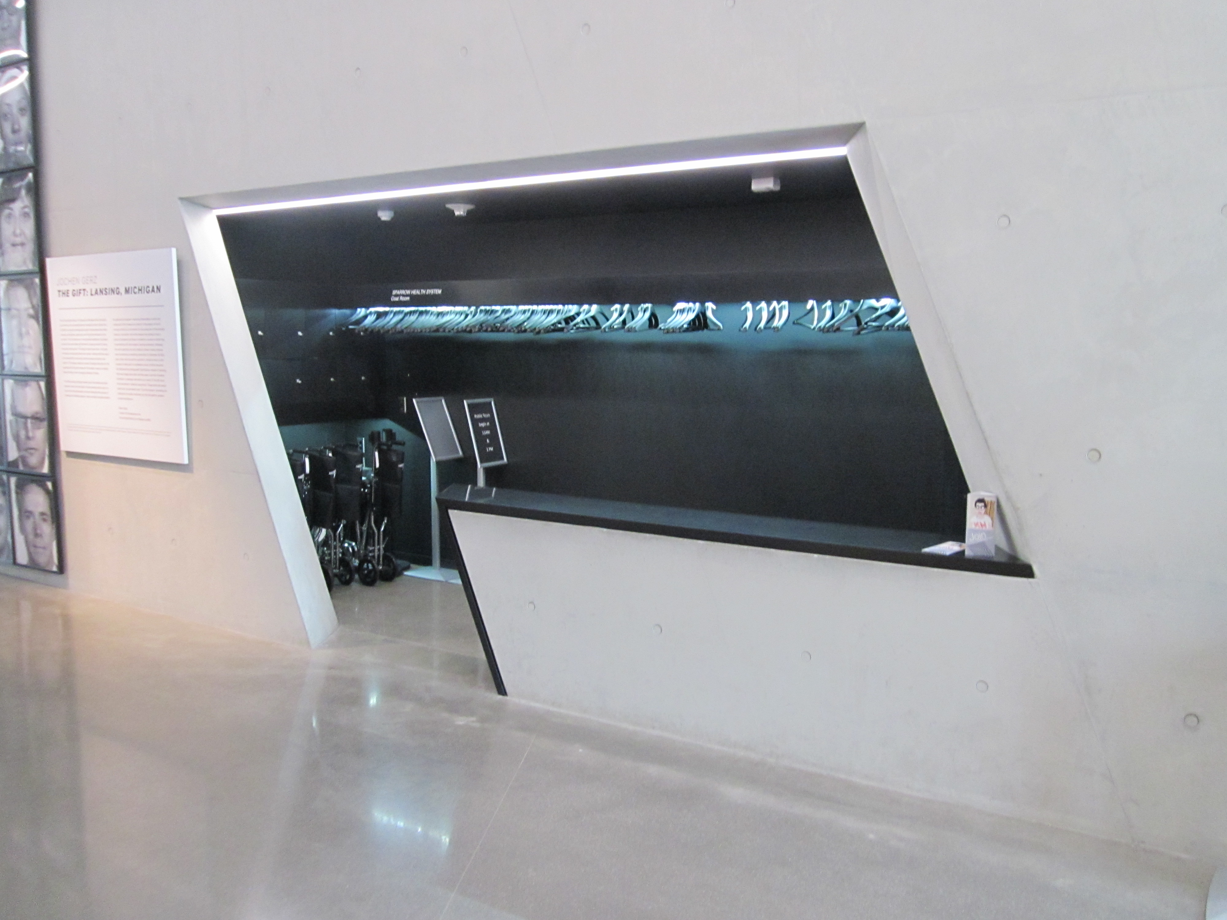 Even the coat room carries an angular design — Eli and Edythe Broad Art Museum, Michigan.